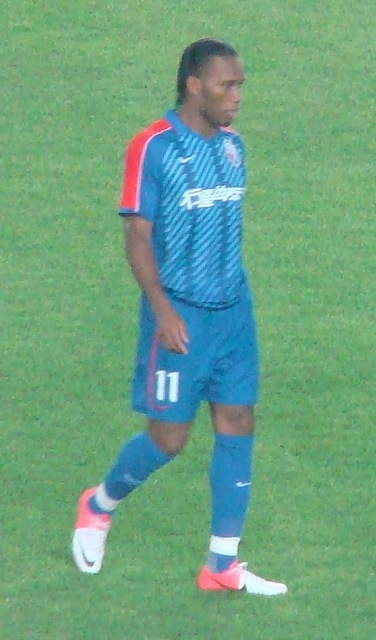 Drogba with Shanghai team